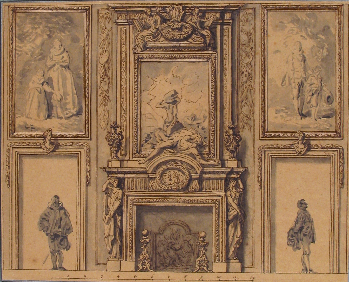 Drawing Ornament & Architecture; Drawings